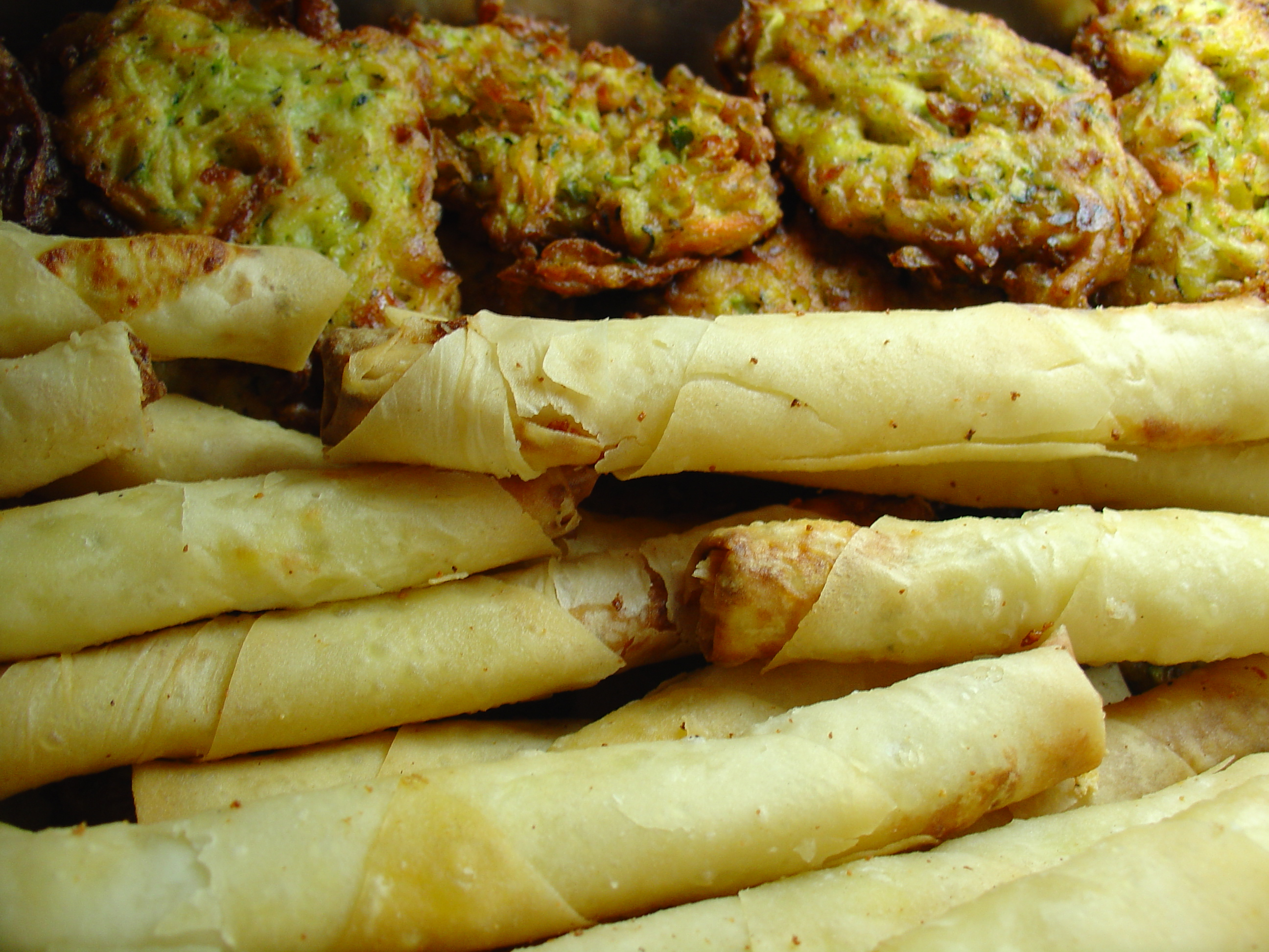 More of the fine turkish food we had on our party.